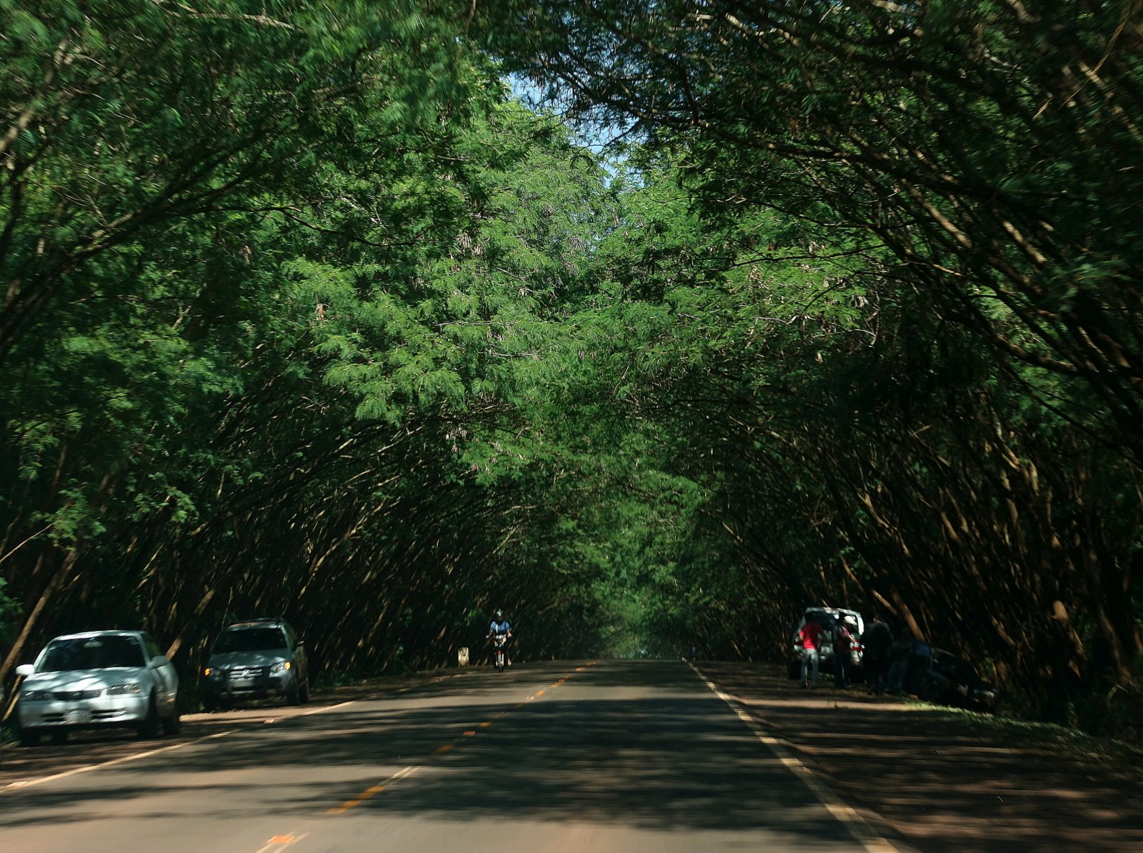 Route 6 passes through the famous tree tunnel near Santa Rita city.